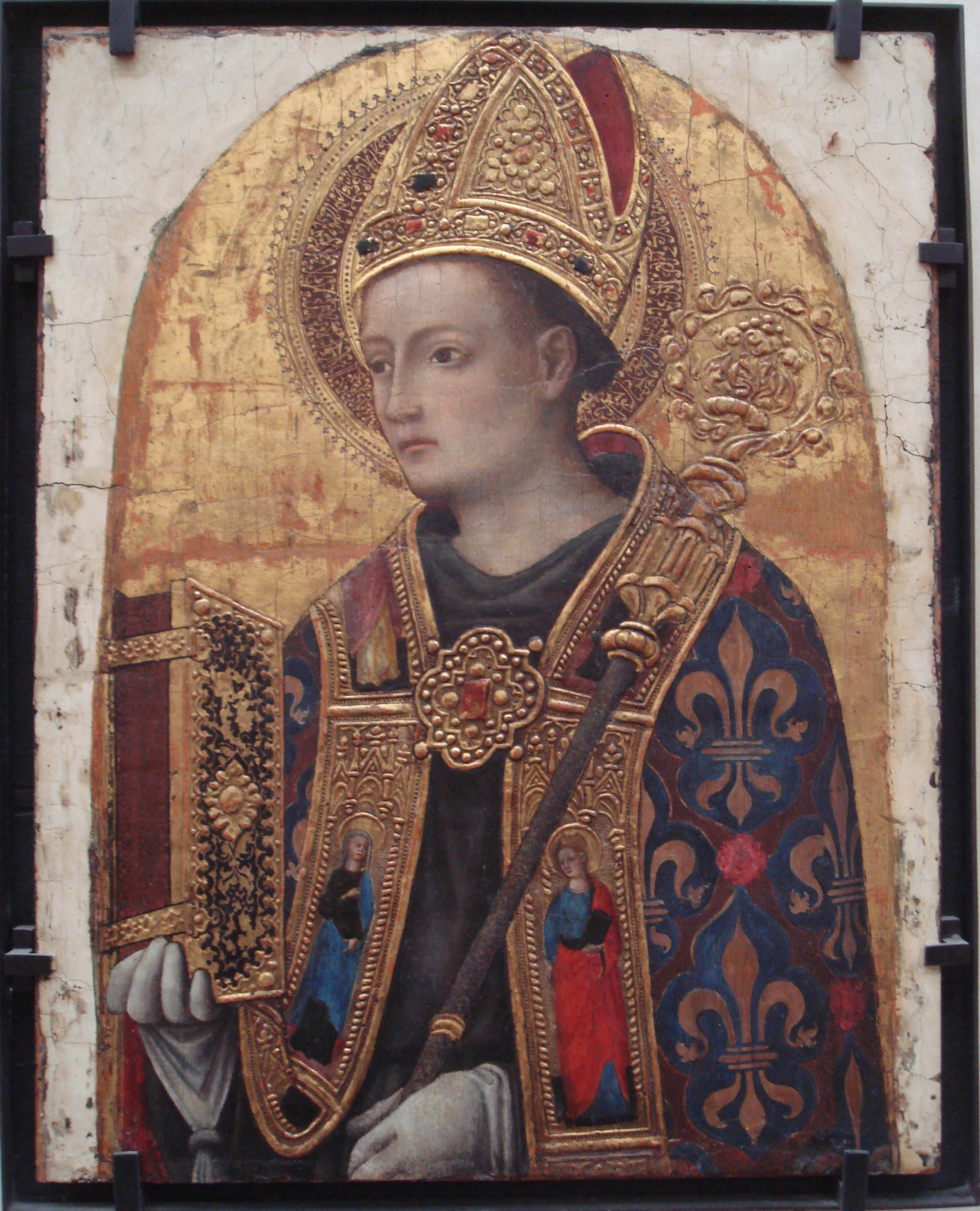 Portrait of St. Louis of Toulouse, probably from a polyptych.